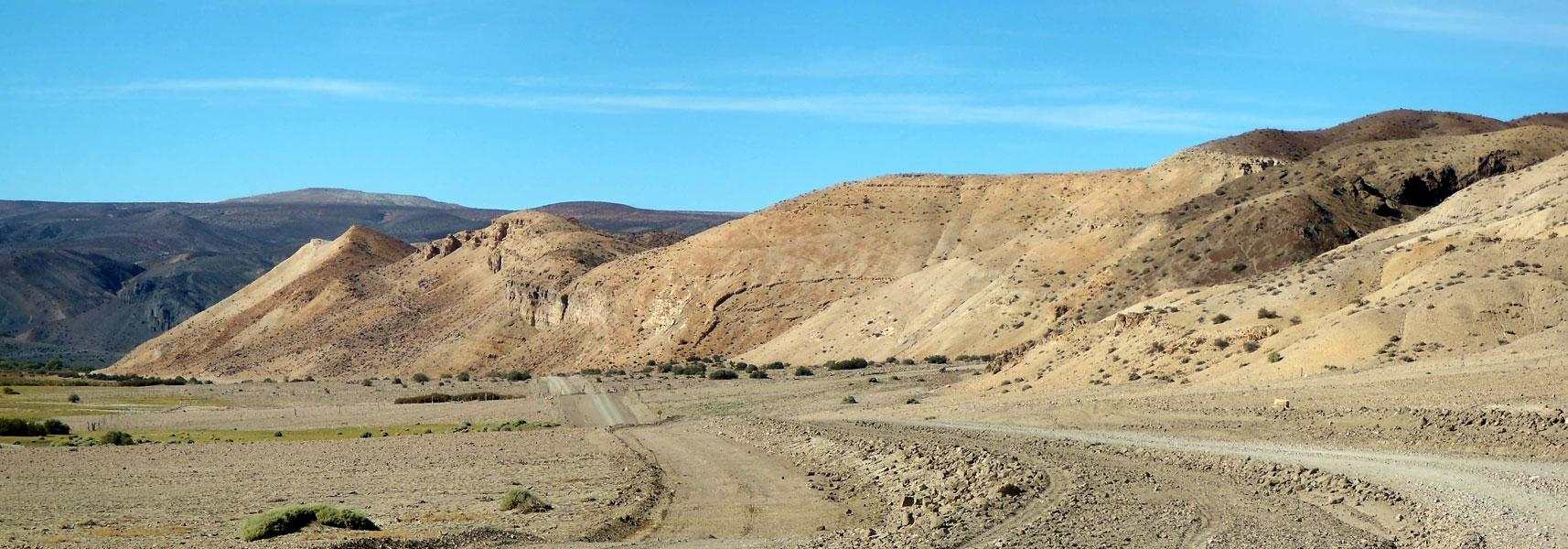 Cañadón Asfalto fm. (Upper Jurassic) near Cerro Cóndor, Chubut, Argentina.